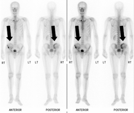 99mTc-MDP BS showed mildly hot areas at right iliac bone with a large, round cold area (black arrows).